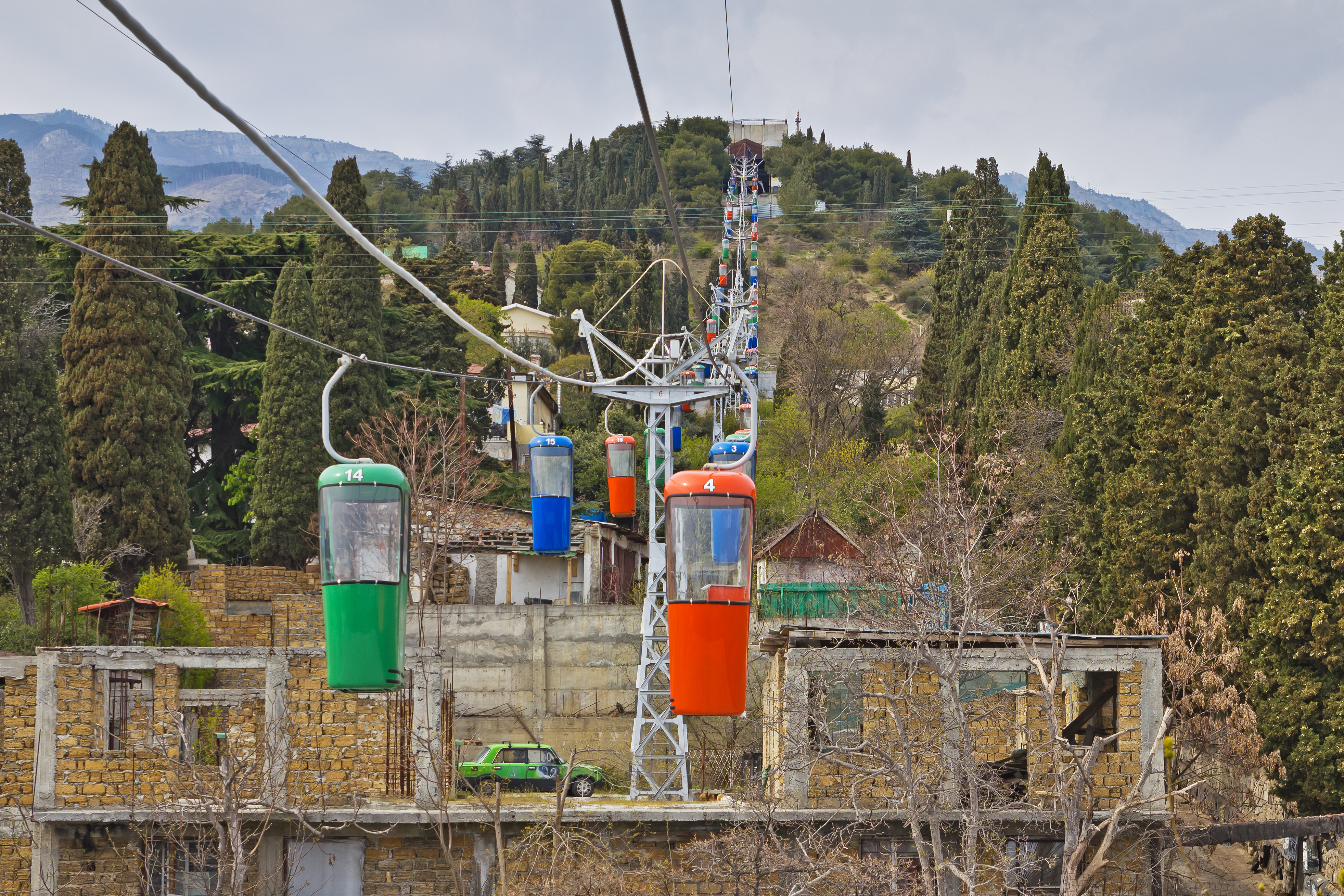 The city cableway of Yalta, Crimean Peninsula. View from one of the cabins towards the upper station.